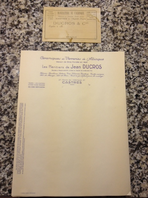 Epoque où l'entreprise ne fabrique plus et devient grossiste